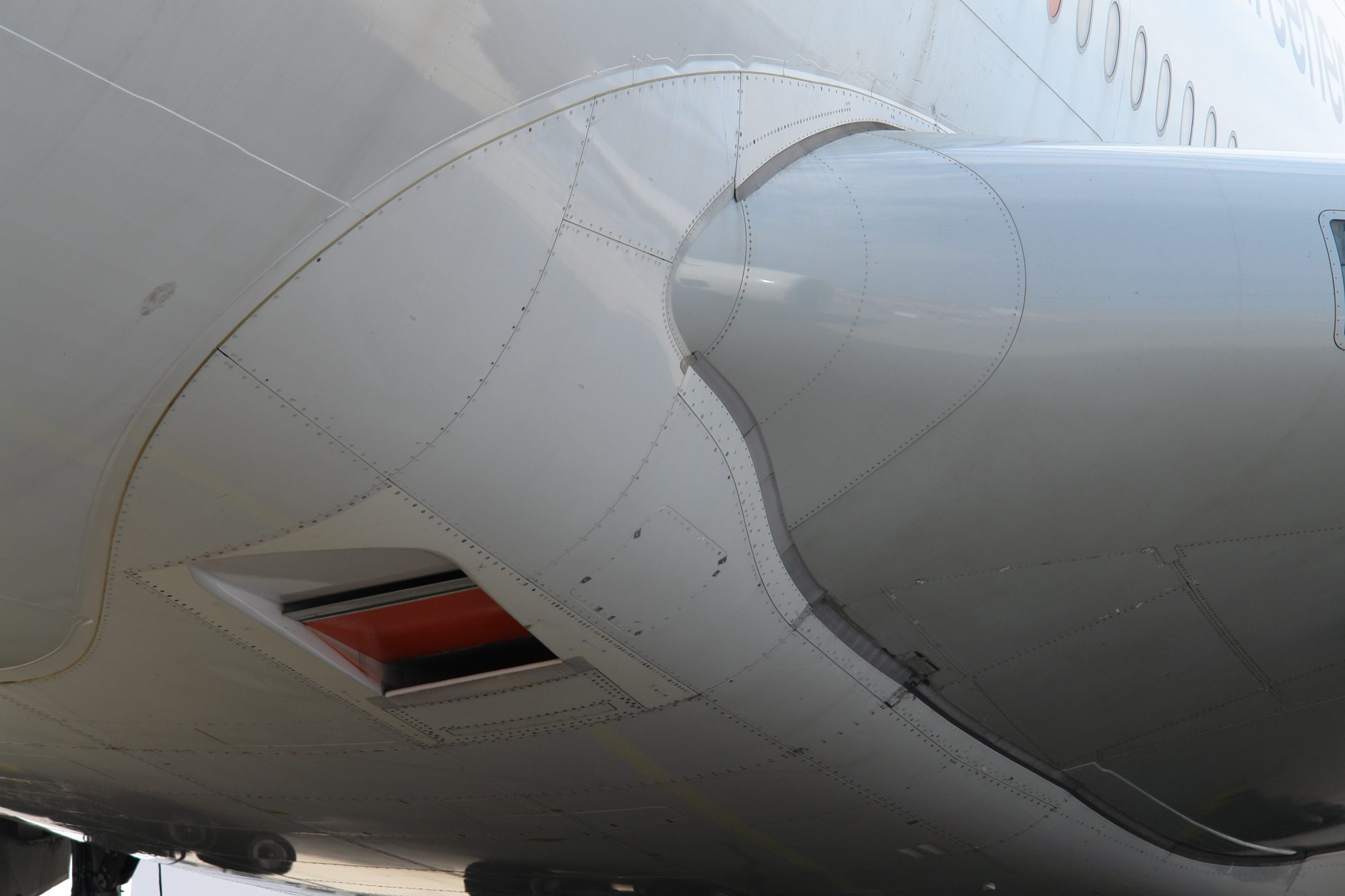 Airbus 380 connection between wing and fuselage